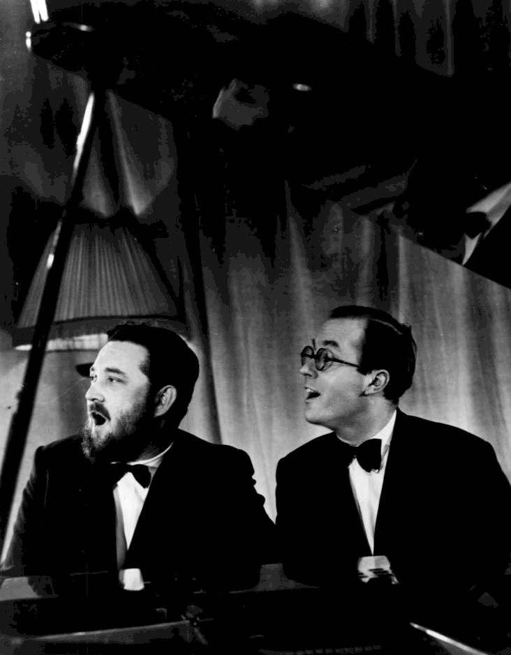 Photo of Michael Flanders (left) and Donald Swann from a US tour prior to taking their revue, "At the Drop of Another Hat", to Broadway.